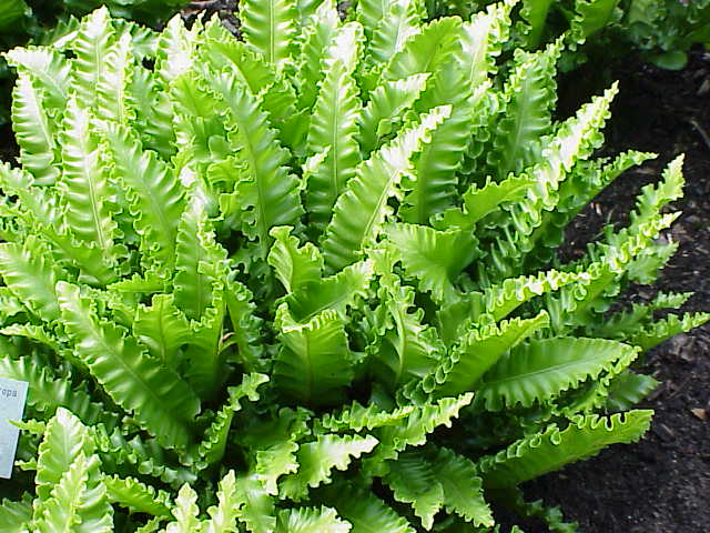 Species: Phyllitis scolopendrium (cultivar) Family: ' Image No. 4